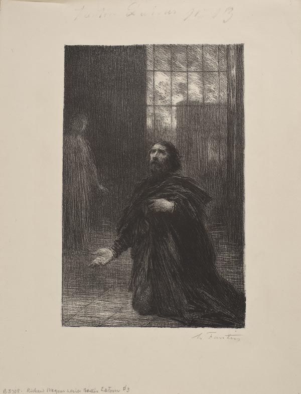 Rienzi: Act V, The Prayer of Rienzi by Henri Fantin-Latour, 1886, Lithograph, San Antonio Museum of Art